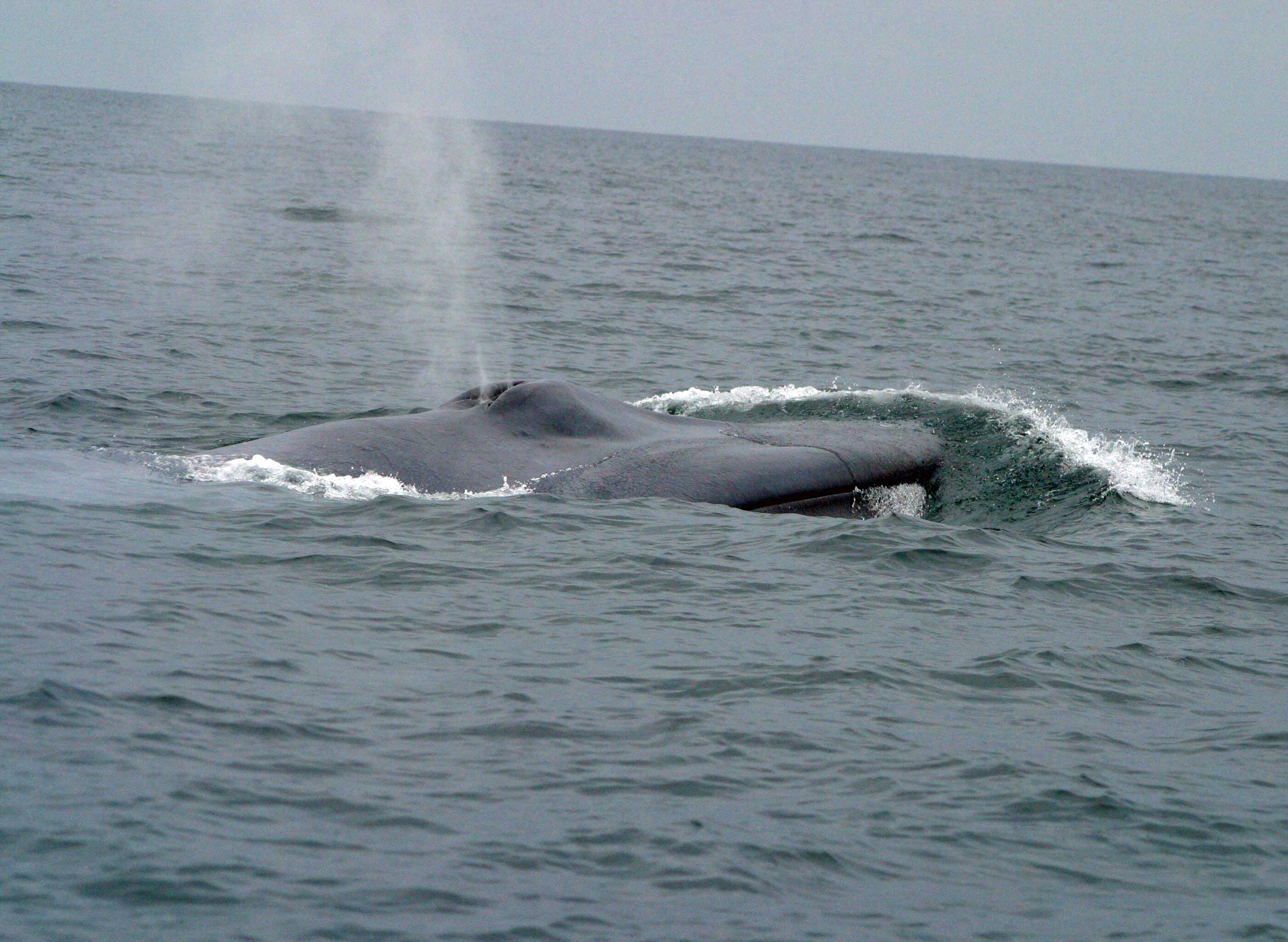 Blue whale (Balaenoptera musculus) blowing. The original NOAA image has been cropped and adjusted in brightness and contrast.